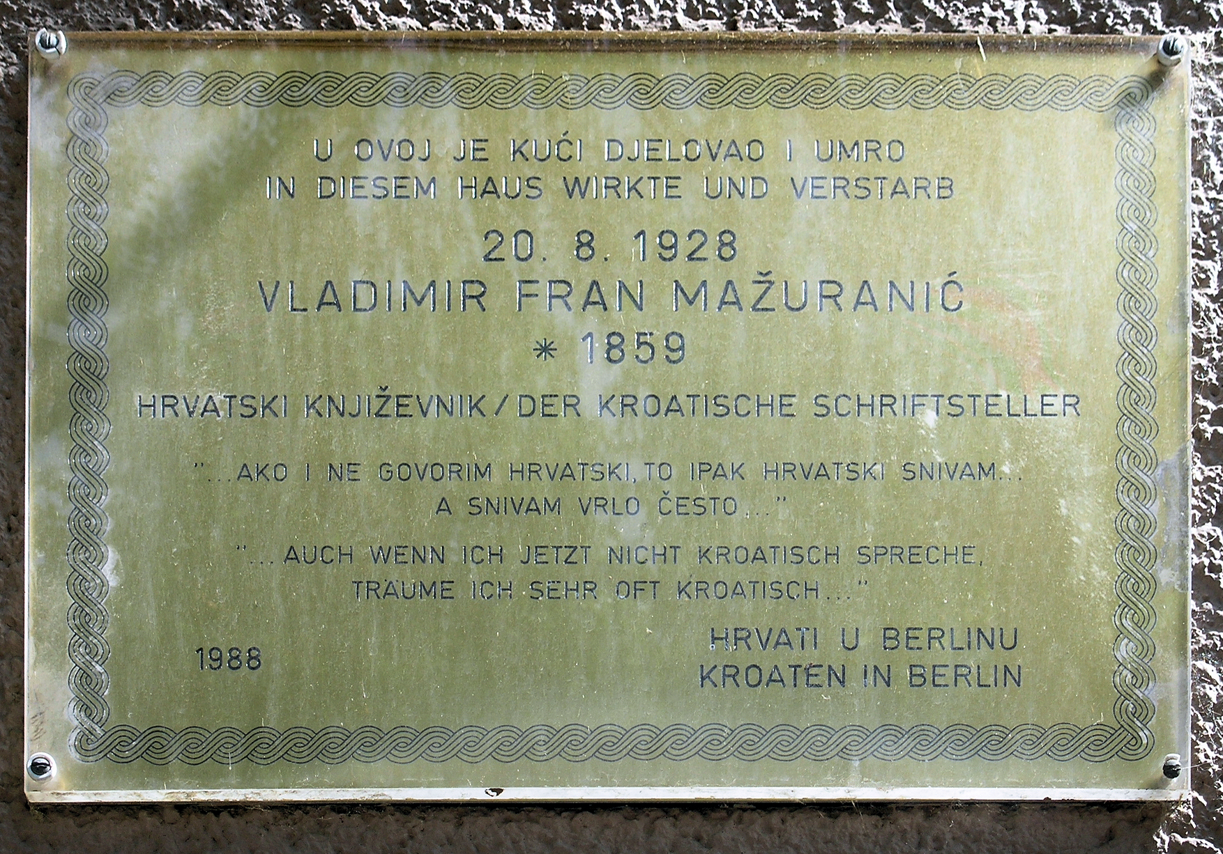 Memorial plaque, Vladimir Fran Mažuranić, Dieffenbachstraße 67, Berlin-Kreuzberg, Germany Koordinate:52°29′37″N 13°24′46″E / 52.49361°N 13.41278°E